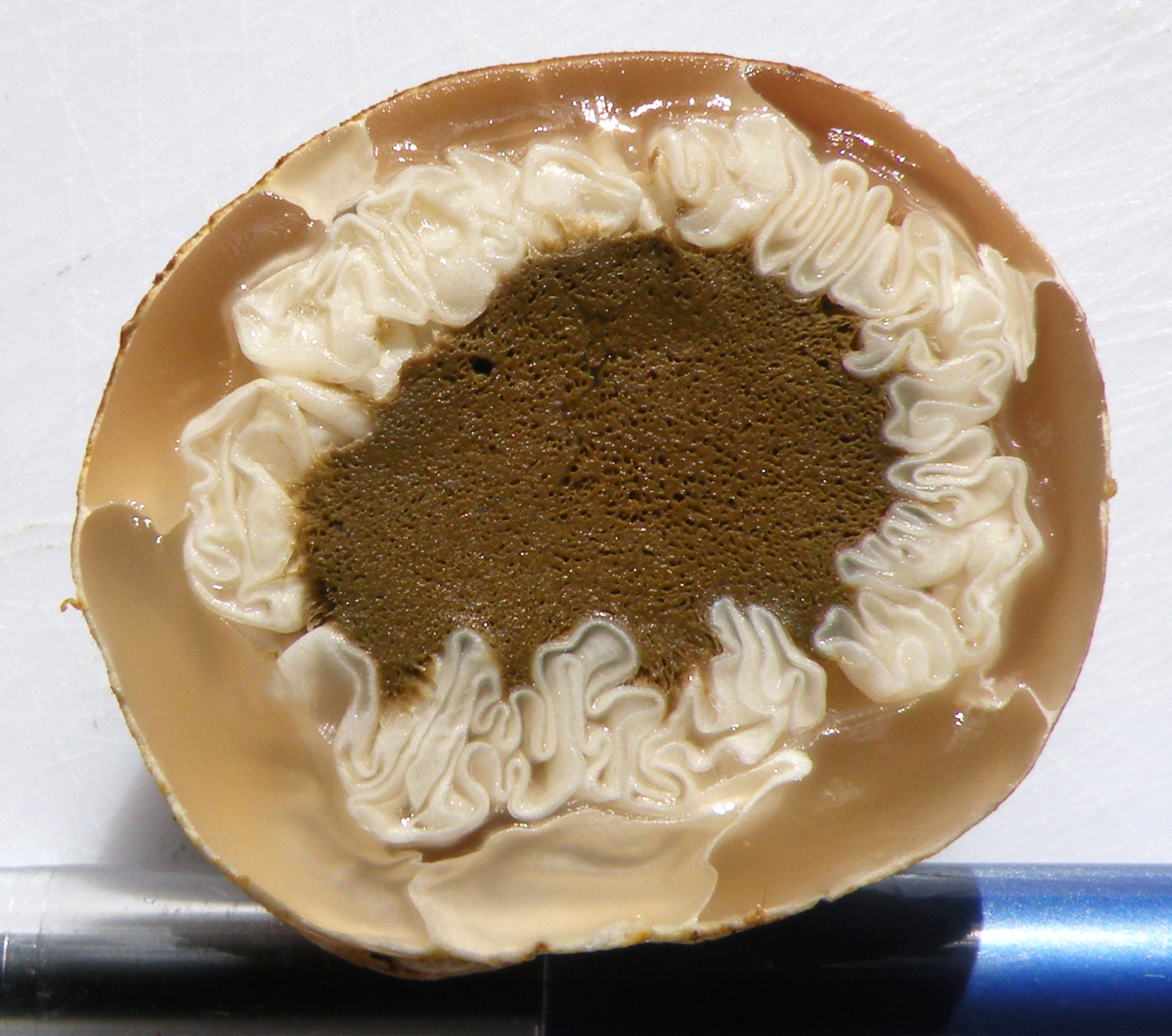 Cross section of the unopened fruiting body of the New Zealand basket fungus (Ileodictyon cibarium), next to a ballpoint pen. Dug up from a vegetable garden in Wellington in March 2012.